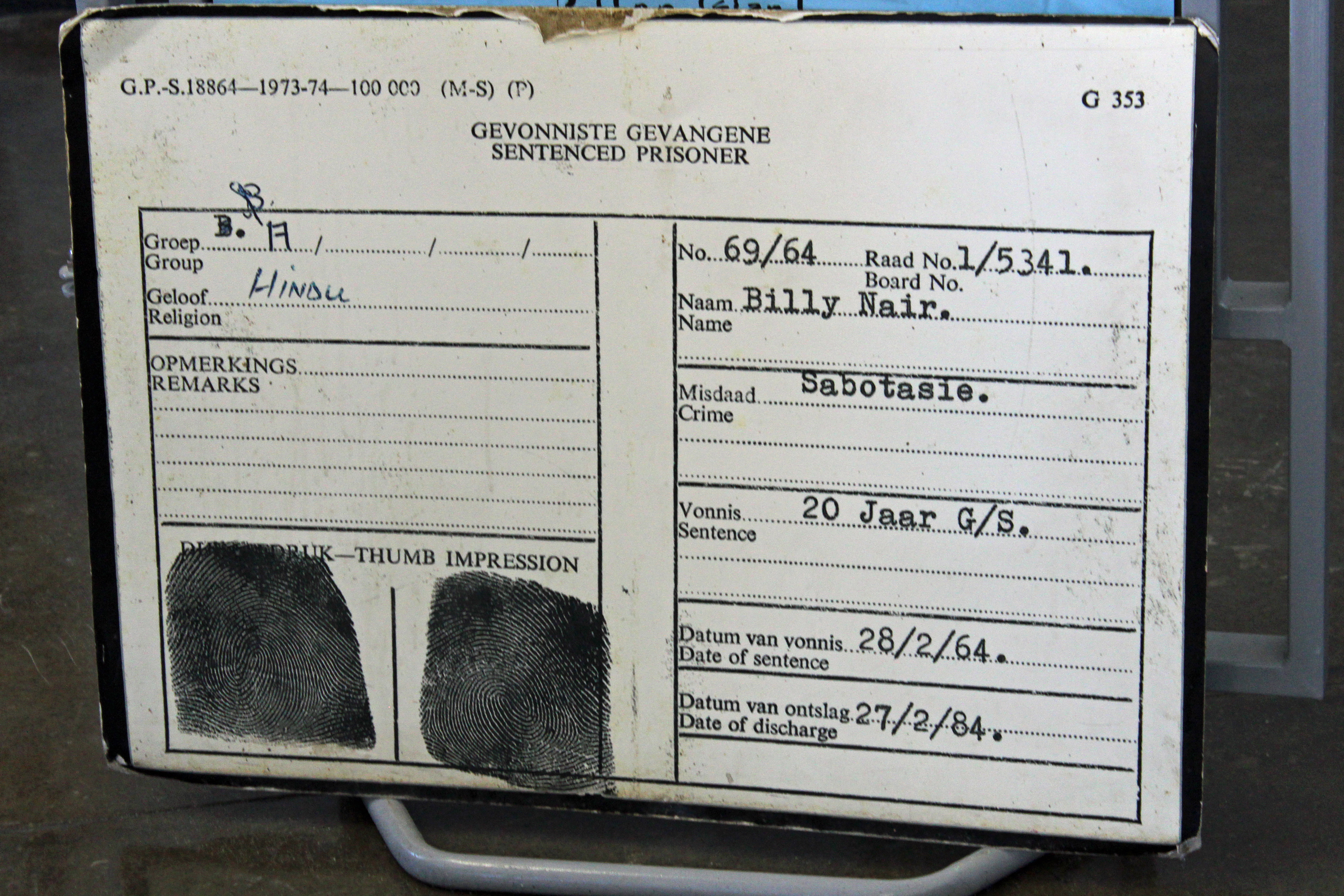 Robben Island Museum display inside communal cell in Robben Island Maximum Security Prison (Billy Nair's prisoner card)